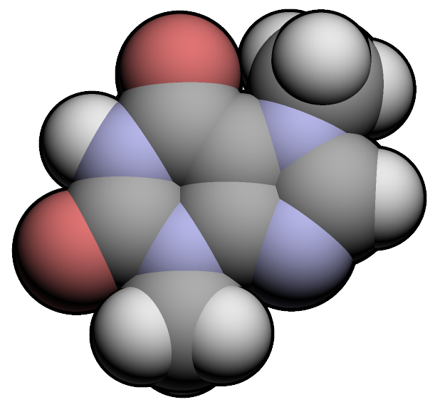 Molecular spacefill of Theobromine